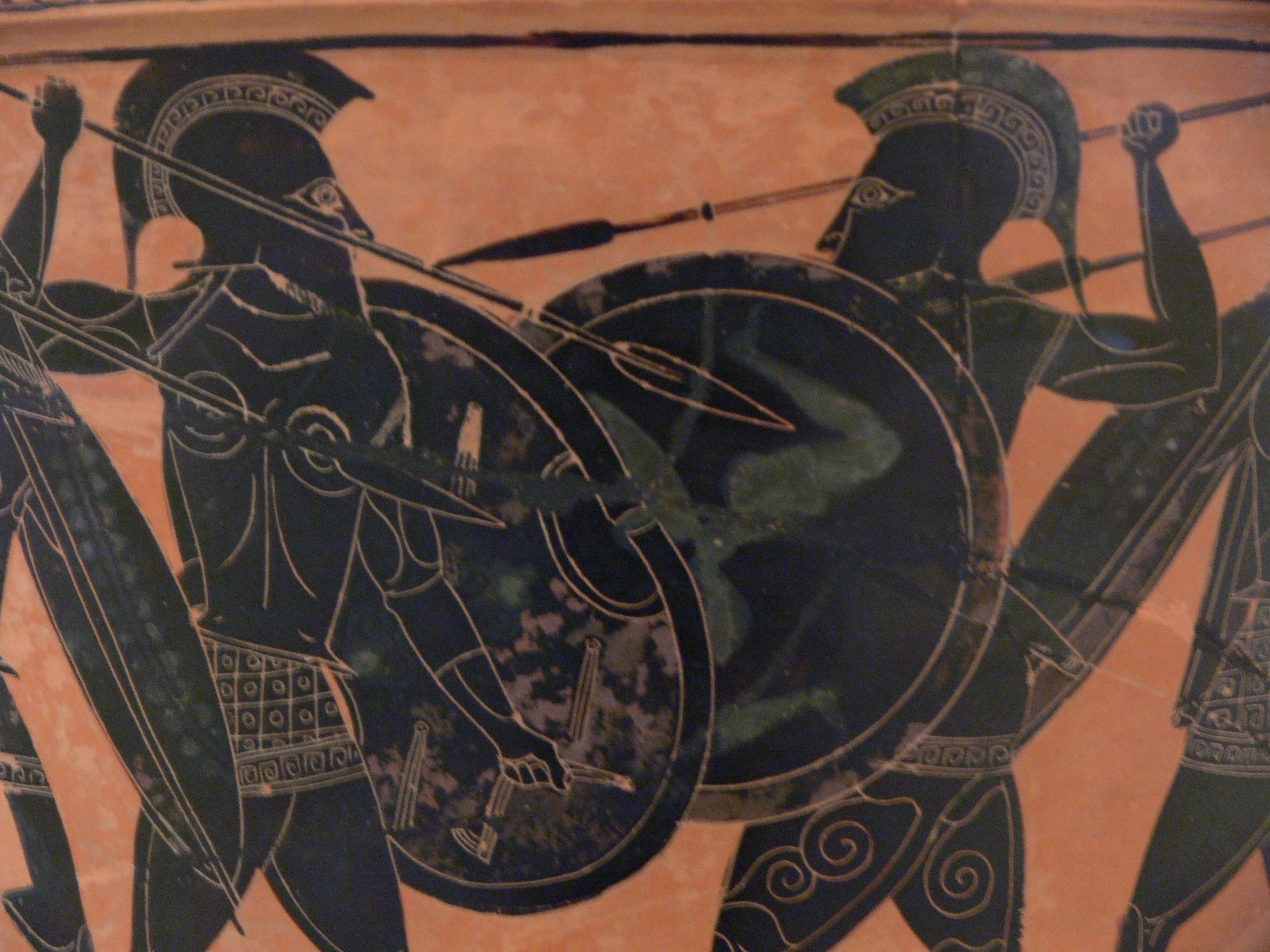 Hoplite fight from Athens Archaeological Museum